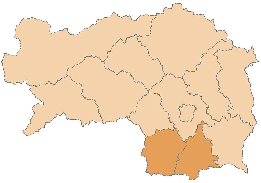 Map of the Austrian State Styria, highlighting (former) Southwestern Styria